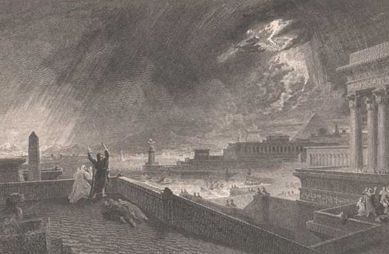 An 1828 engraving of The Seventh Plague of Egypt by John Martin